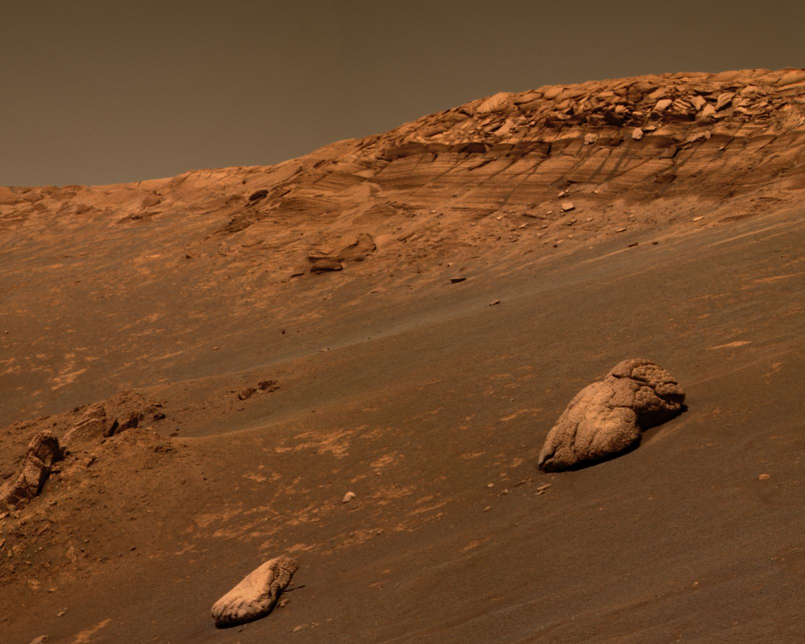 This approximate true-color image taken by NASA's Mars Exploration Rover Opportunity shows an unusual, lumpy rock informally named "Wopmay" on the lower slopes of "Endurance Crater". The rock, seen to the right in the photo, was named after the Canadian bush pilot Wilfrid Reid "Wop" May. Like "Escher" and other rocks dotting the bottom of Endurance, scientists believe the lumps in Wopmay may be related to cracking and alteration processes, possibly caused by exposure to water. The area between intersecting sets of cracks eroded in a way that created the lumpy appearance. Rover team members plan to drive Opportunity over to Wopmay for a closer look in coming sols. This image was taken by the rover's panoramic camera on sol 248 (Oct. 4, 2004), using its 750-, 530- and 480-nanometer filters.